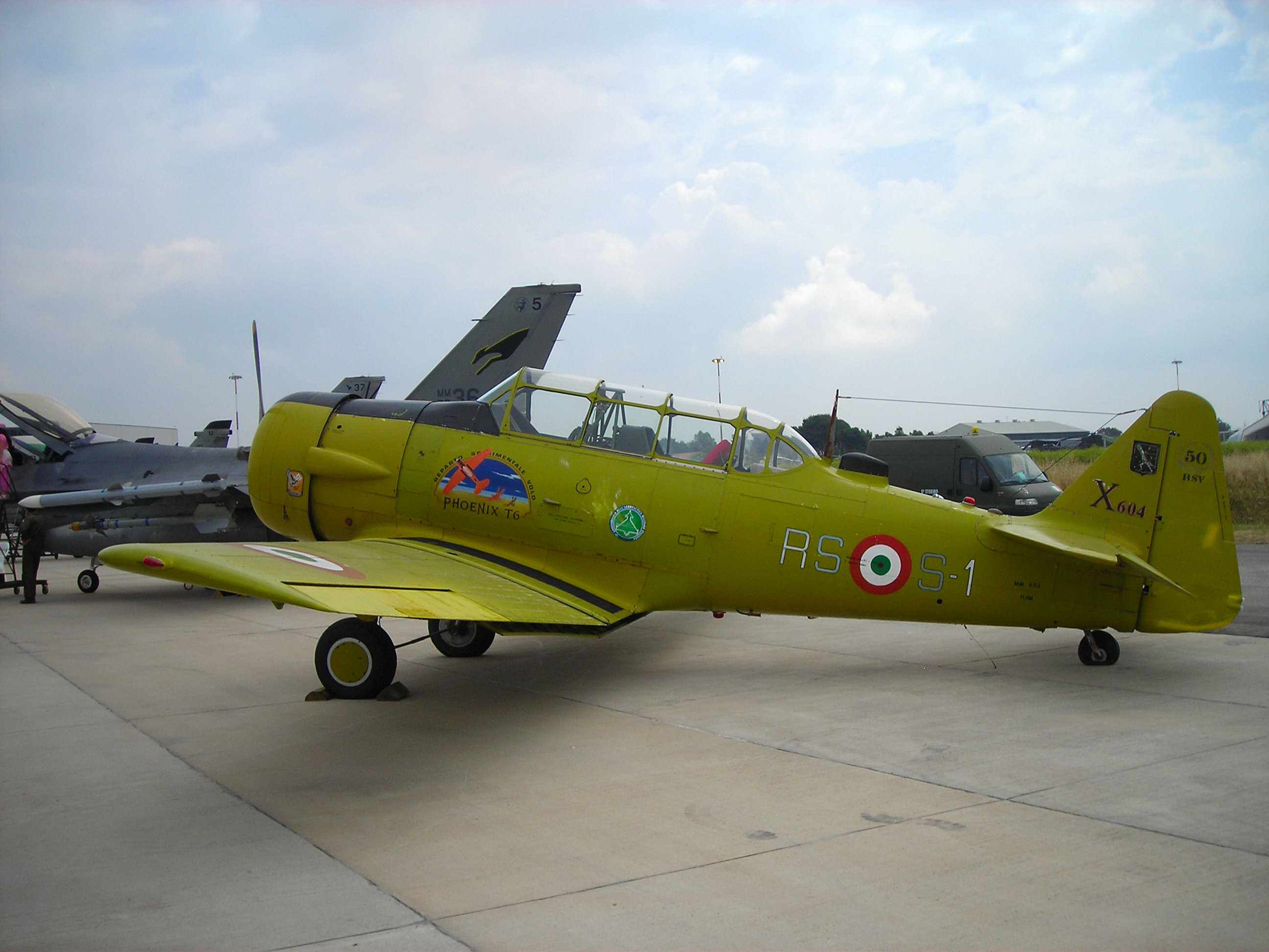 Picture of a North American (Canadian Car and Foundry) Harvard Mk.IV of Reparto Sperimentale Volo taken during "Giornata Azzurra" 2007 (Italian Air Force airshow) at Pratica di Mare AFB, Italy